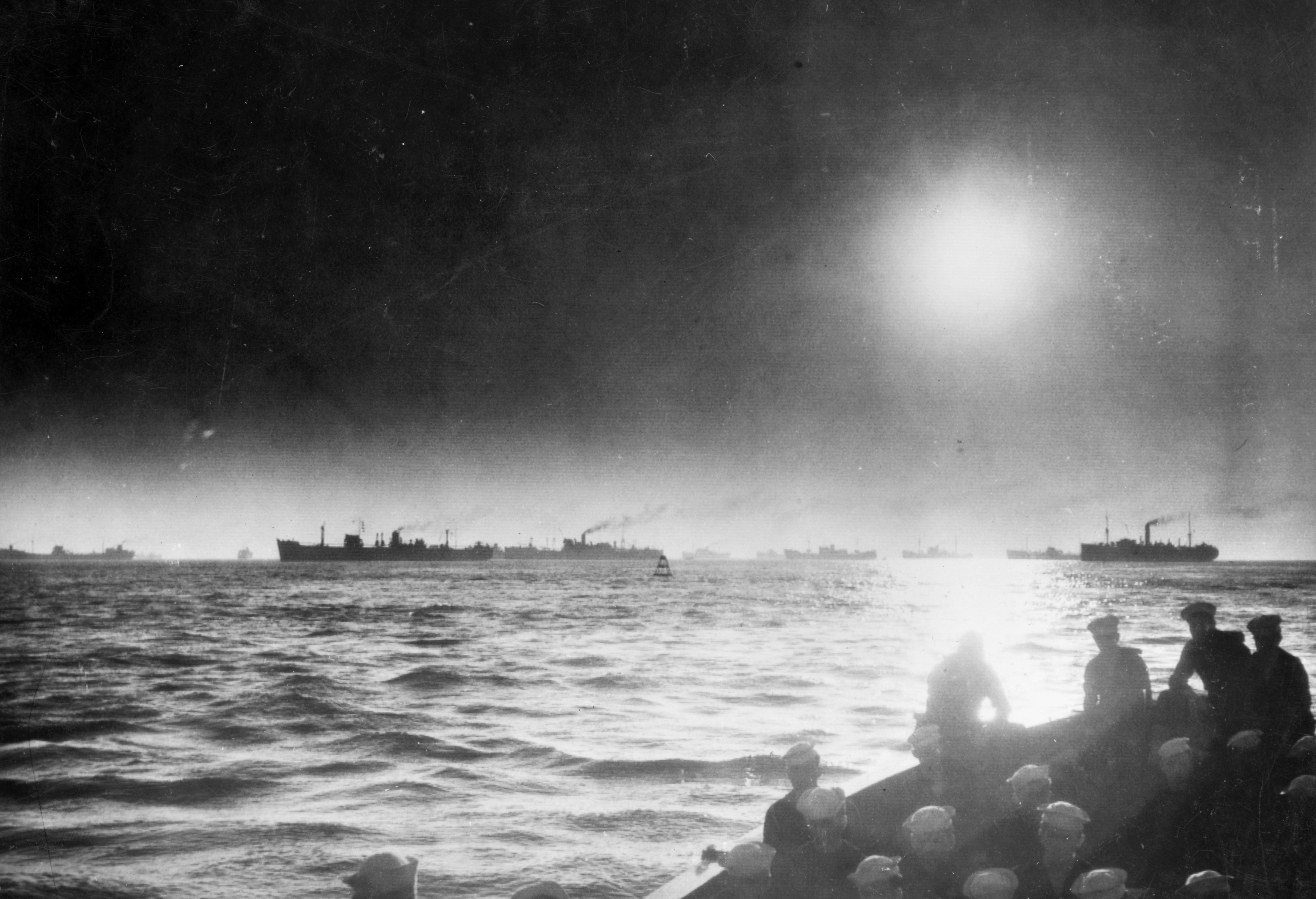 A convoy crossiong the Atlantic (probably on the US East Coast due to the whaleboat in front.)